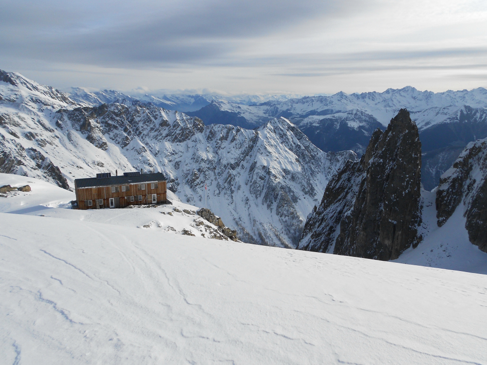 Cabane de Saleina, heading NE.